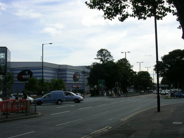 Parrs Wood Centre. Parrs Wood Centre and the junction of Parrs Wood Lane and Kingsway at Didsbury. SJ85529050.